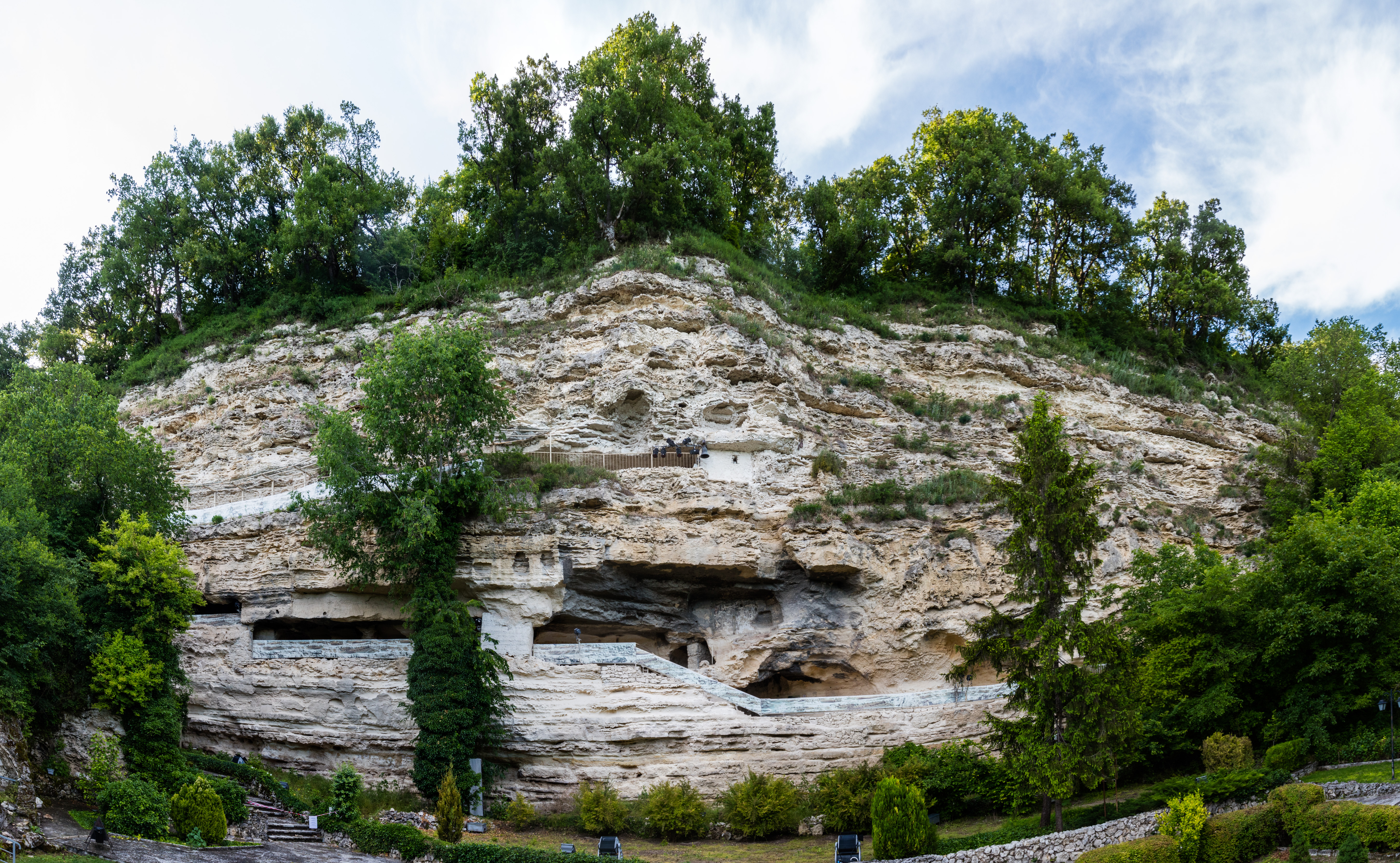 Aladzha Monastery near Varna, Bulgaria